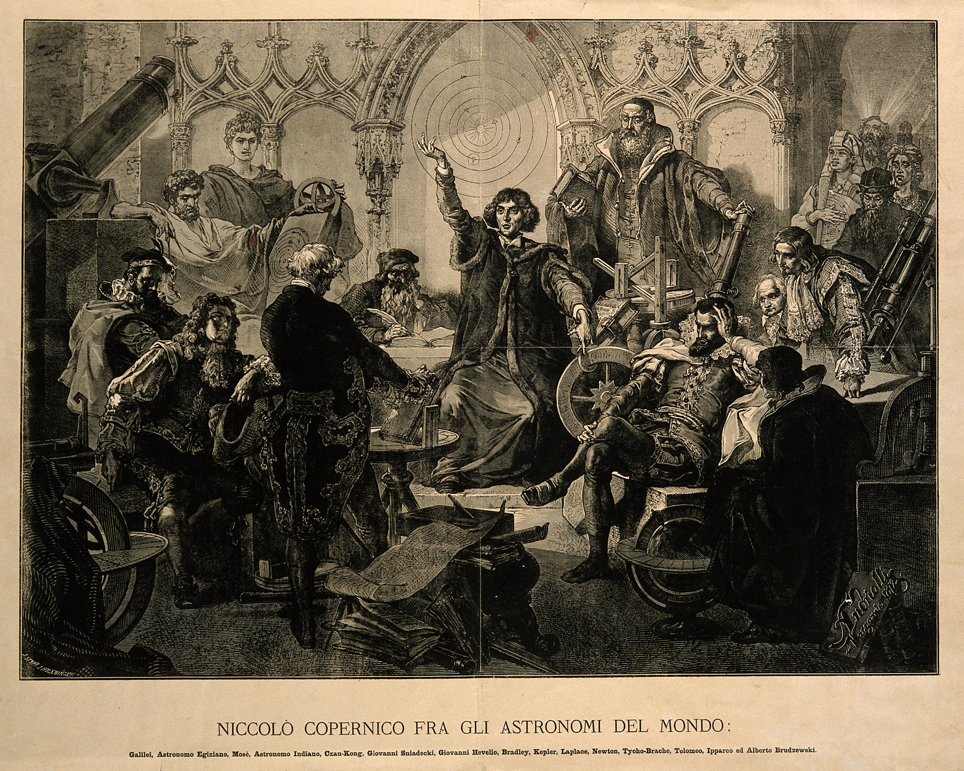 Nicolas Copernicus among other astronomers of the world. Photomechanical reproduction of a wood engraving by J. Styfi after J. Holewinski. Iconographic Collections Keywords: Isaac Newton; Johann Kepler; J. Holewinski; Ptolemy; Nicolaus Copernicus; Pierre-Simon de Laplace; A. Brudzewski; Tycho Brahe; James Bradley; Galileo Galilei; J. Styfi; Hipparchus